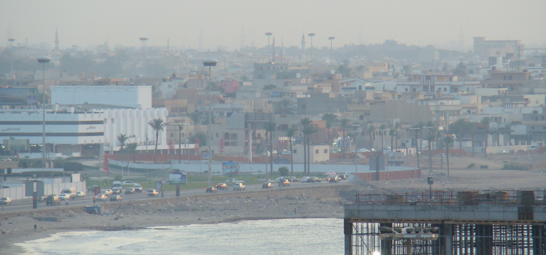 remote view of beach of TripoliZooming